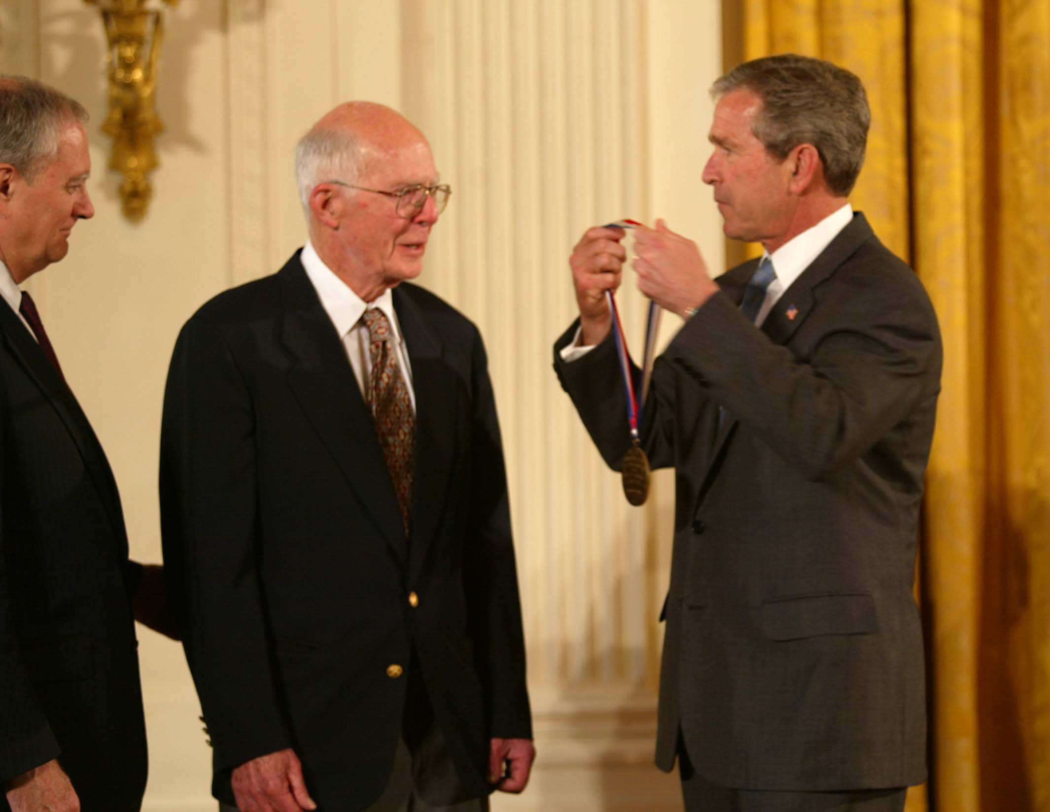 Raymond Davis, Jr. receives the Medal of Science from President Bush, with OSTP Director Marburger looking on.